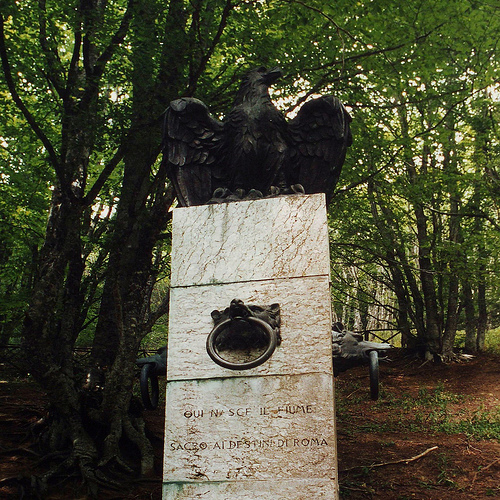 The marble column surmounted by a golden eagle facing Rome